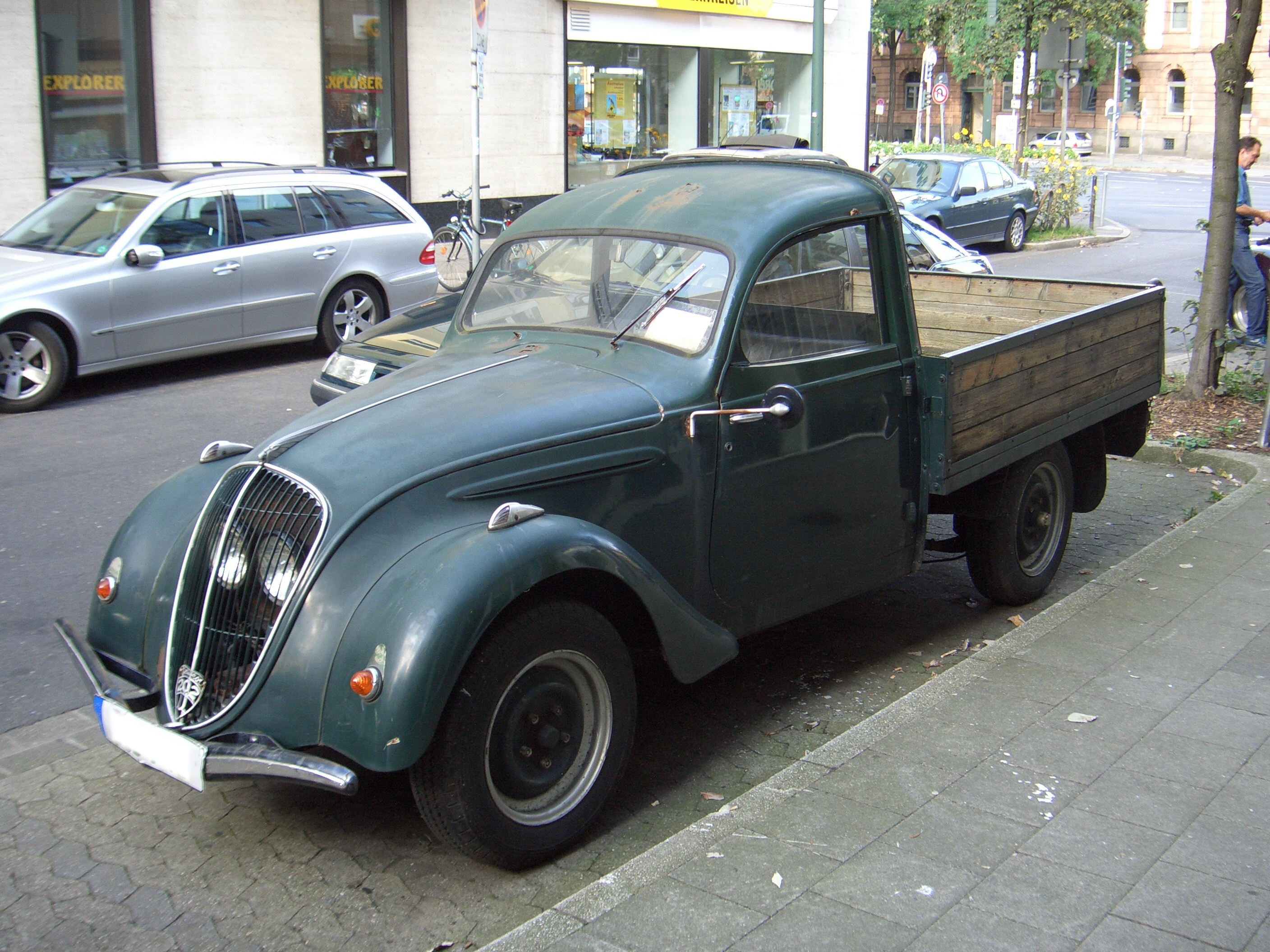 Peugeot 202 (1938-1940), pickup conversion, seen in Duesseldorf, Germany